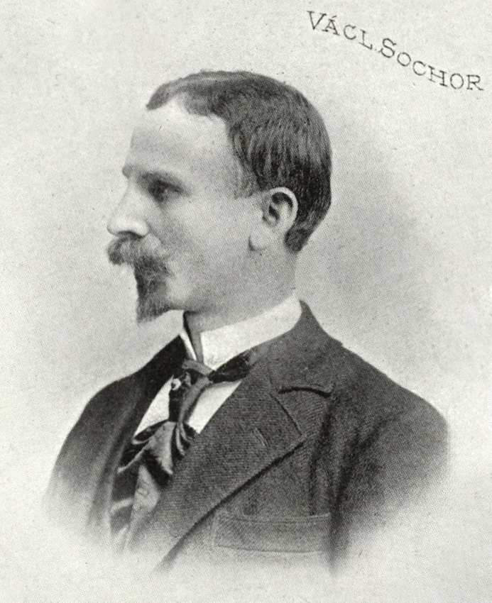 Portrait of Václav Sochor (1855-1935), Czech painter.